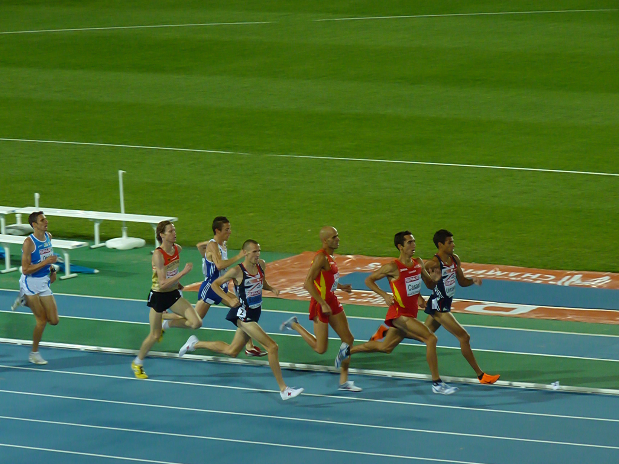 2010 European Championships in Athletics - 1500 m final - 250 metres left. Christian Obrist, Carsten Schlangen, Yoann Kowal, Andy Baddeley, Reyes Estévez, Arturo Casado, Tom Lancashire